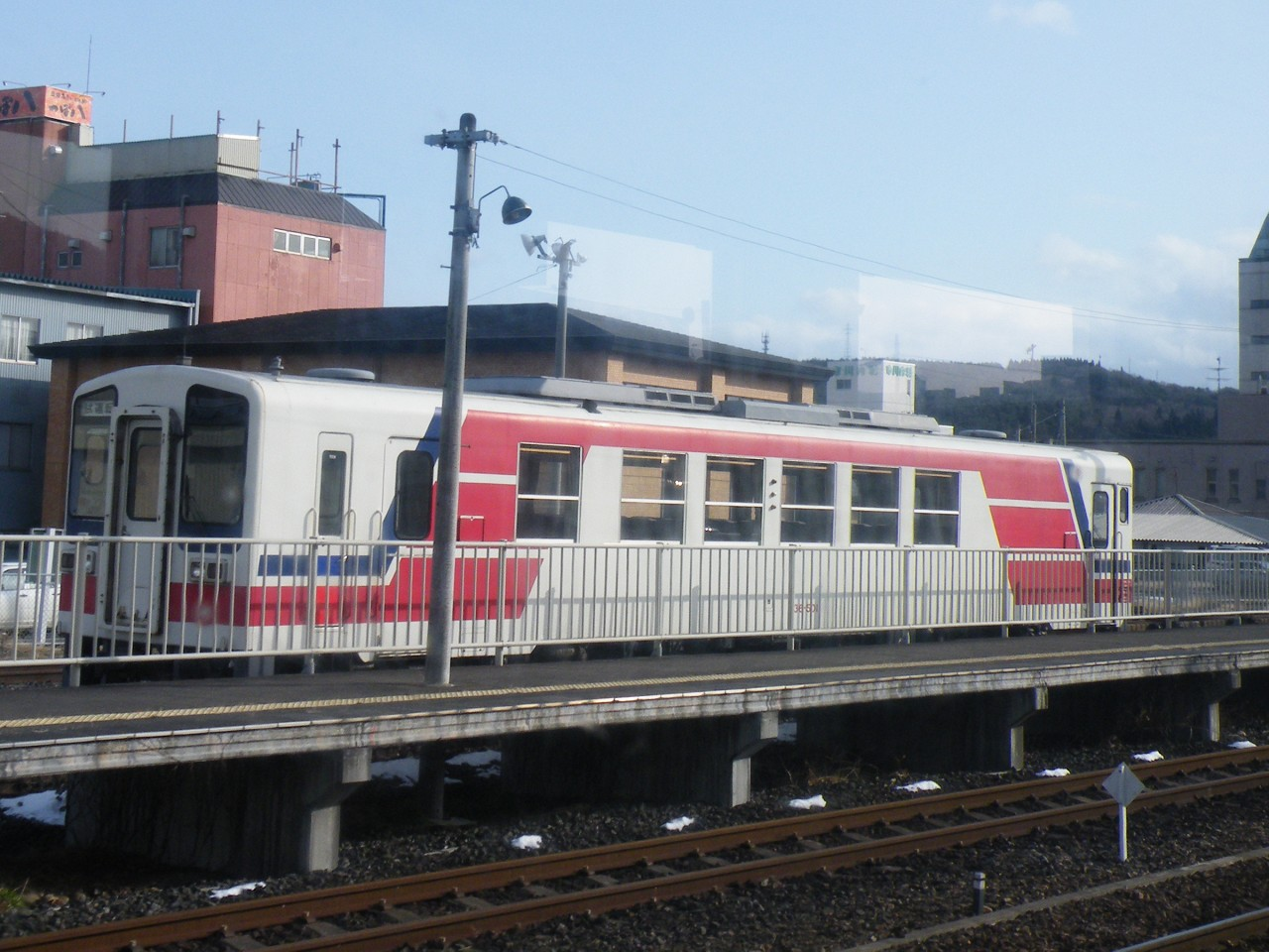 Sanriku Railway 36-500 at Kuji Station